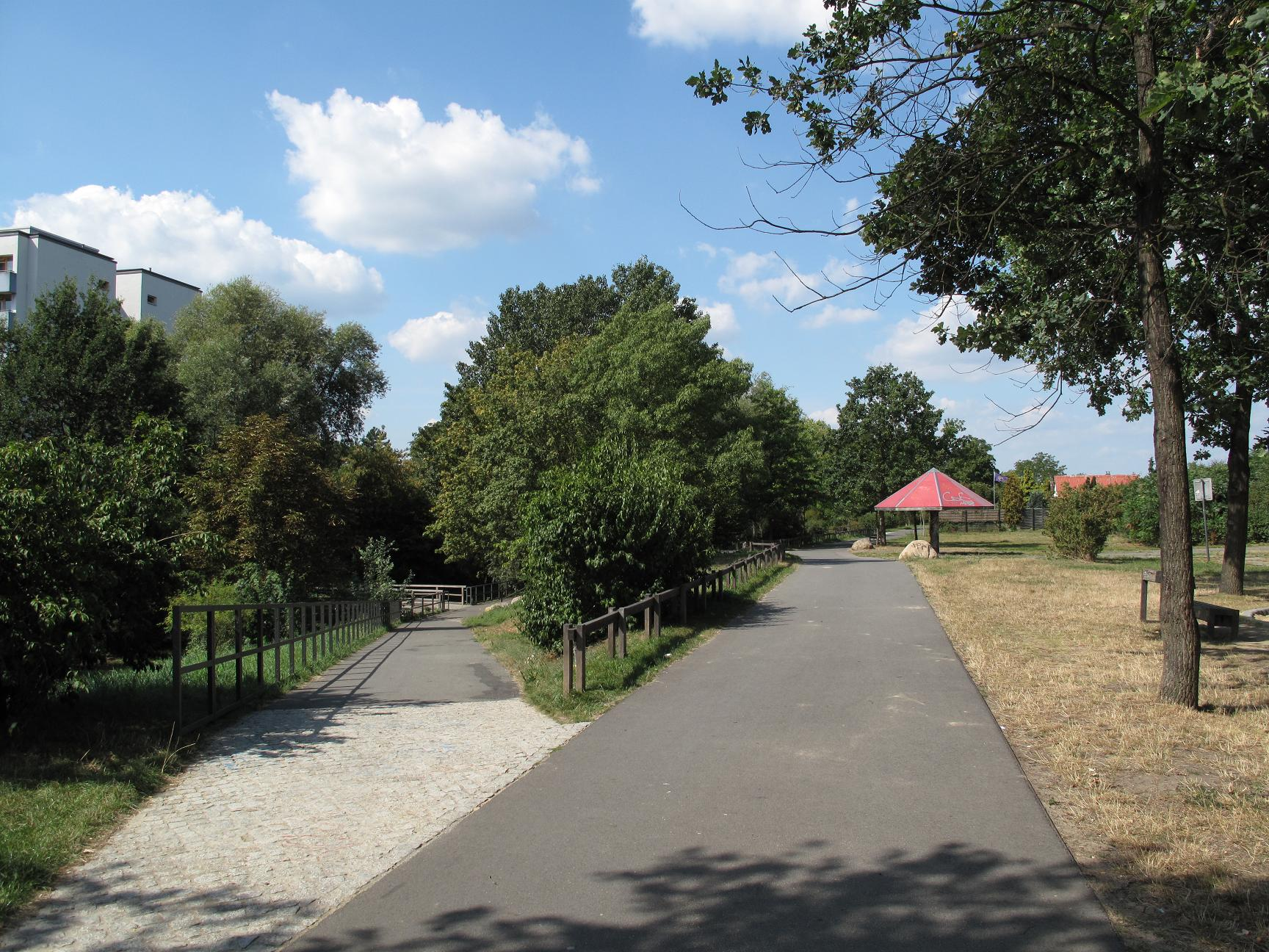 Green space Egelpfuhlgraben, part of the green space Bullengraben. The Bullengraben (german for: bullditch) is a drainage channel to the river Havel in the localities Staaken, Wilhelmstadt and Spandau in the borough Berlin-Spandau, Germany. In 2007 there was opened the green space Bullengraben (german: „Grünzug Bullengraben“) along the 4,5 kilometre long ditch.